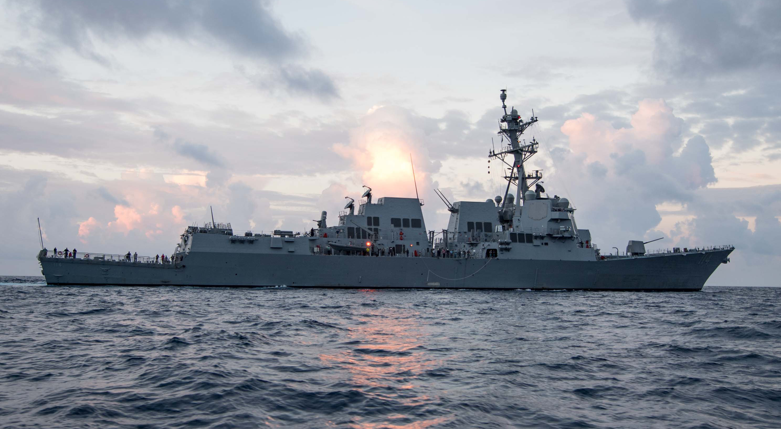 Ingalls Shipbuilding completed builder's sea trials for Ralph Johnson (DDG 114). The Arleigh Burke (DDG 51) destroyer spent more than three days in the Gulf of Mexico testing the ship’s main propulsion, combat and other ship systems. U.S. Navy photo by Andrew Young/HII